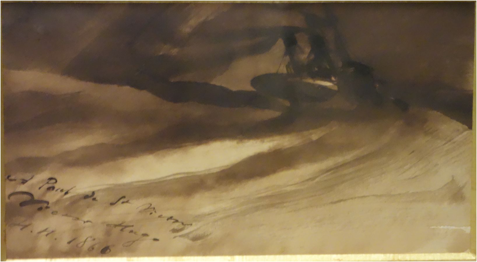 Washed Chinese ink drawing of steamboat Durande (part of "Les travailleurs de la mer"). Dated by Victor Hugo on 4 November 1866 and offered to Paul de Saint-Victor as a thanks for his favourable review.